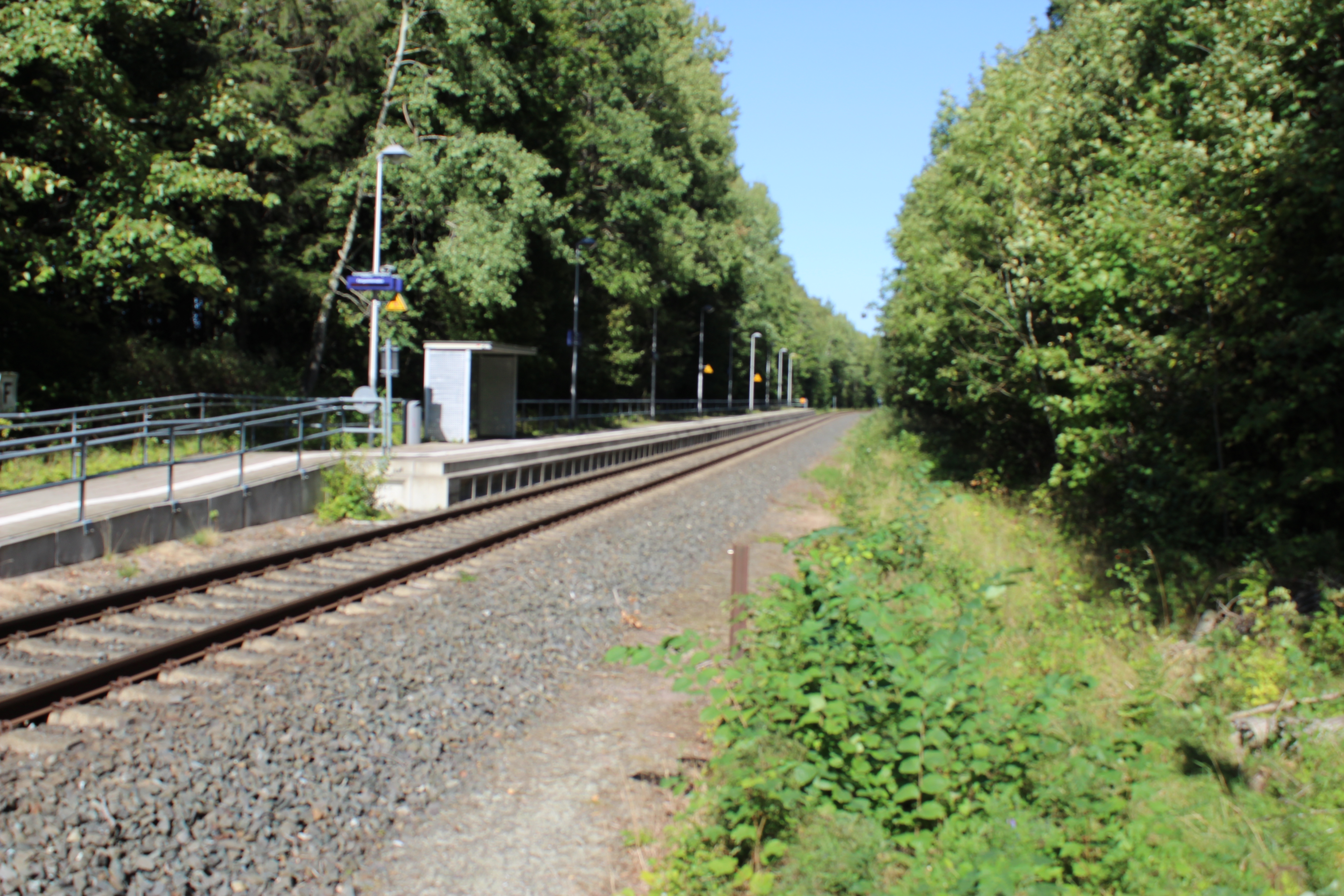 train station Dörrberg